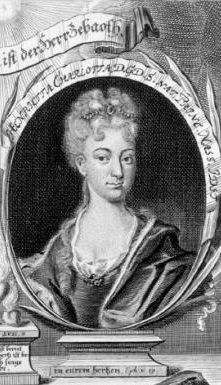 Portrai of Henriette Charlotte of Nassau-Idstein (1693-1734), Duchess consort of Saxe-Merseburg